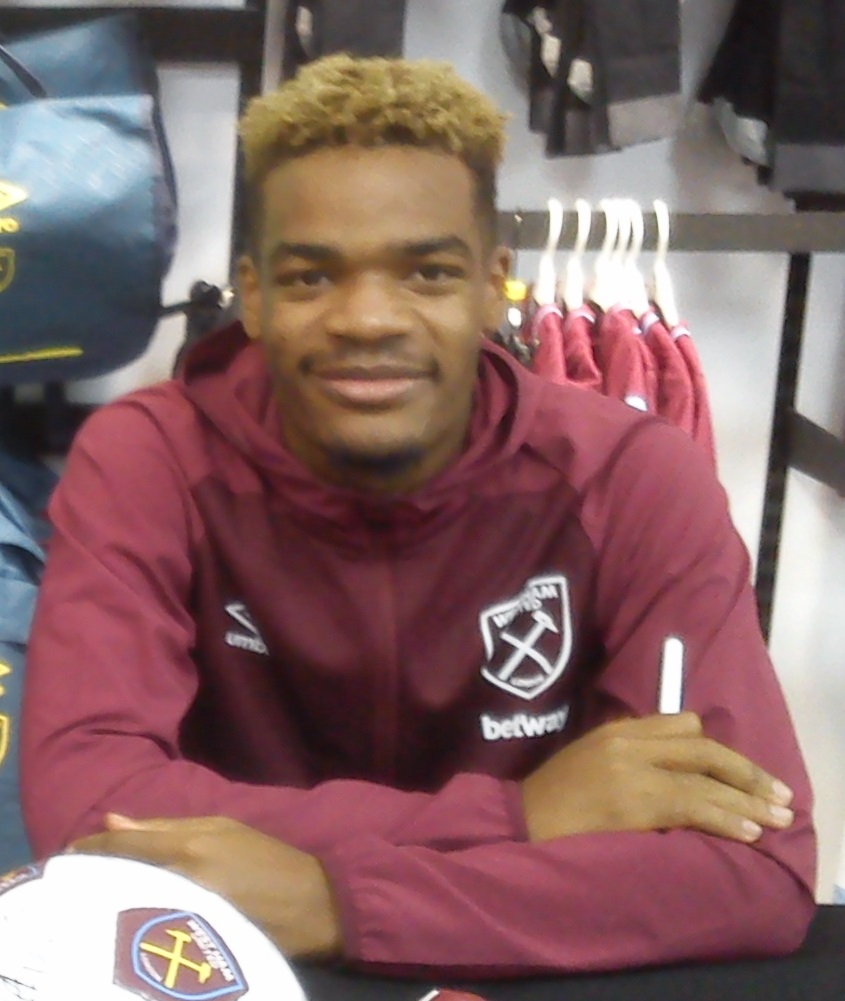 Grady Diangana, footballer for West Ham United. Taken at a signing at the Romford West Ham store